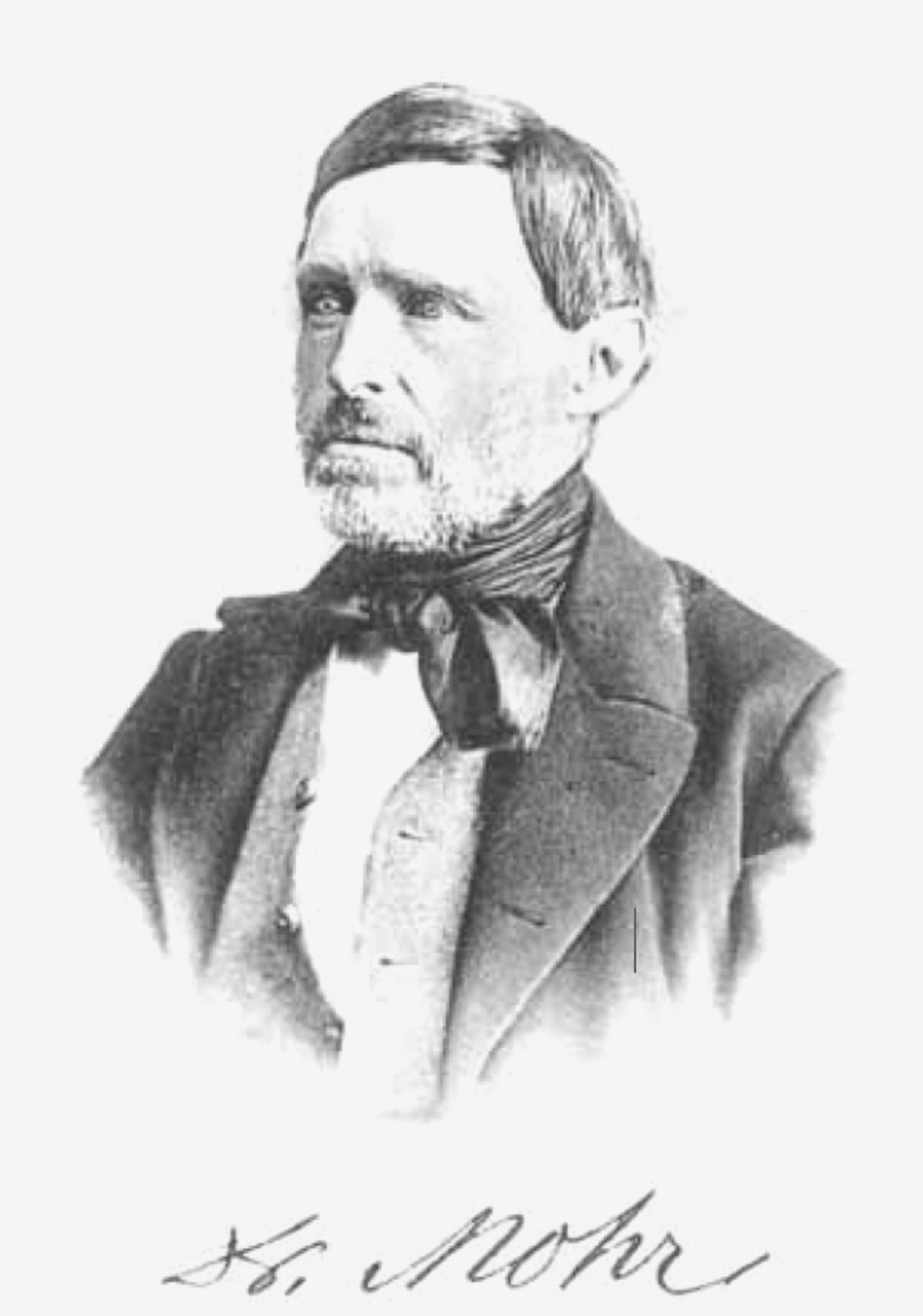 Karl Friedrich Mohr (1806–1879), German pharmacist